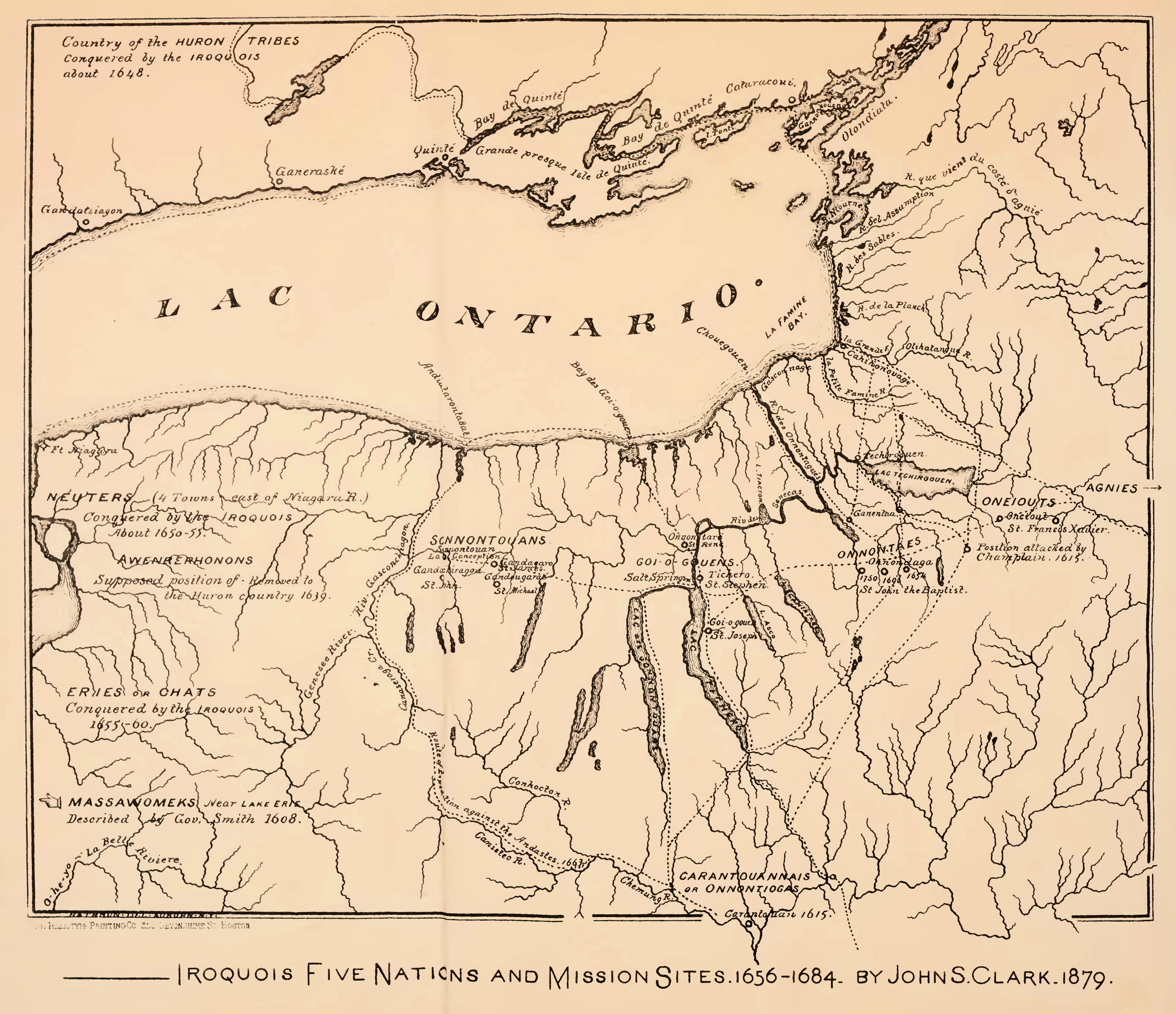 Image of Map of Iroquois Five Nations and Mission Sites 1656-1684 by John S. Clark 1879, published in